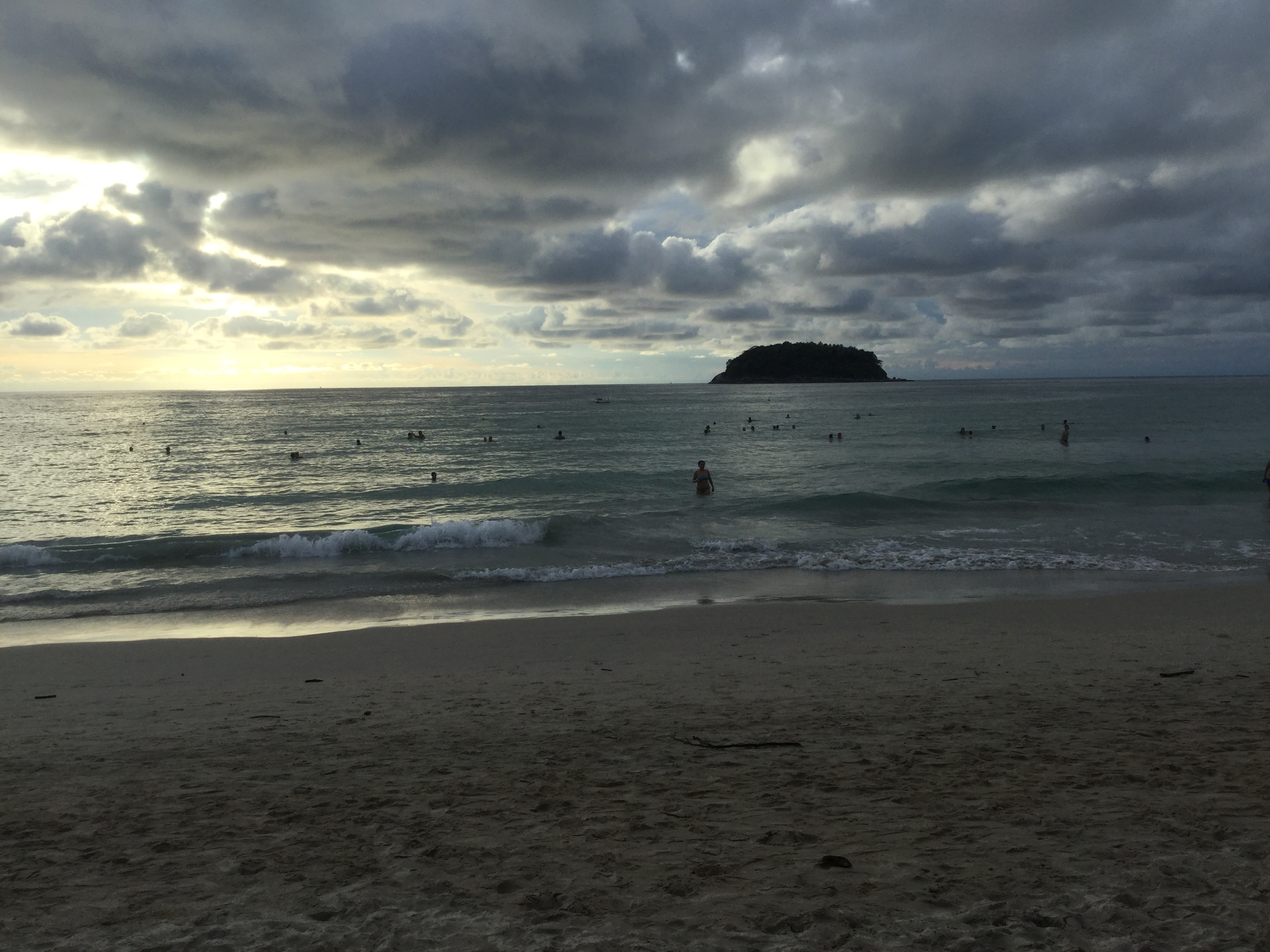 Kata Beach in evening during sunset and Ko Pu island